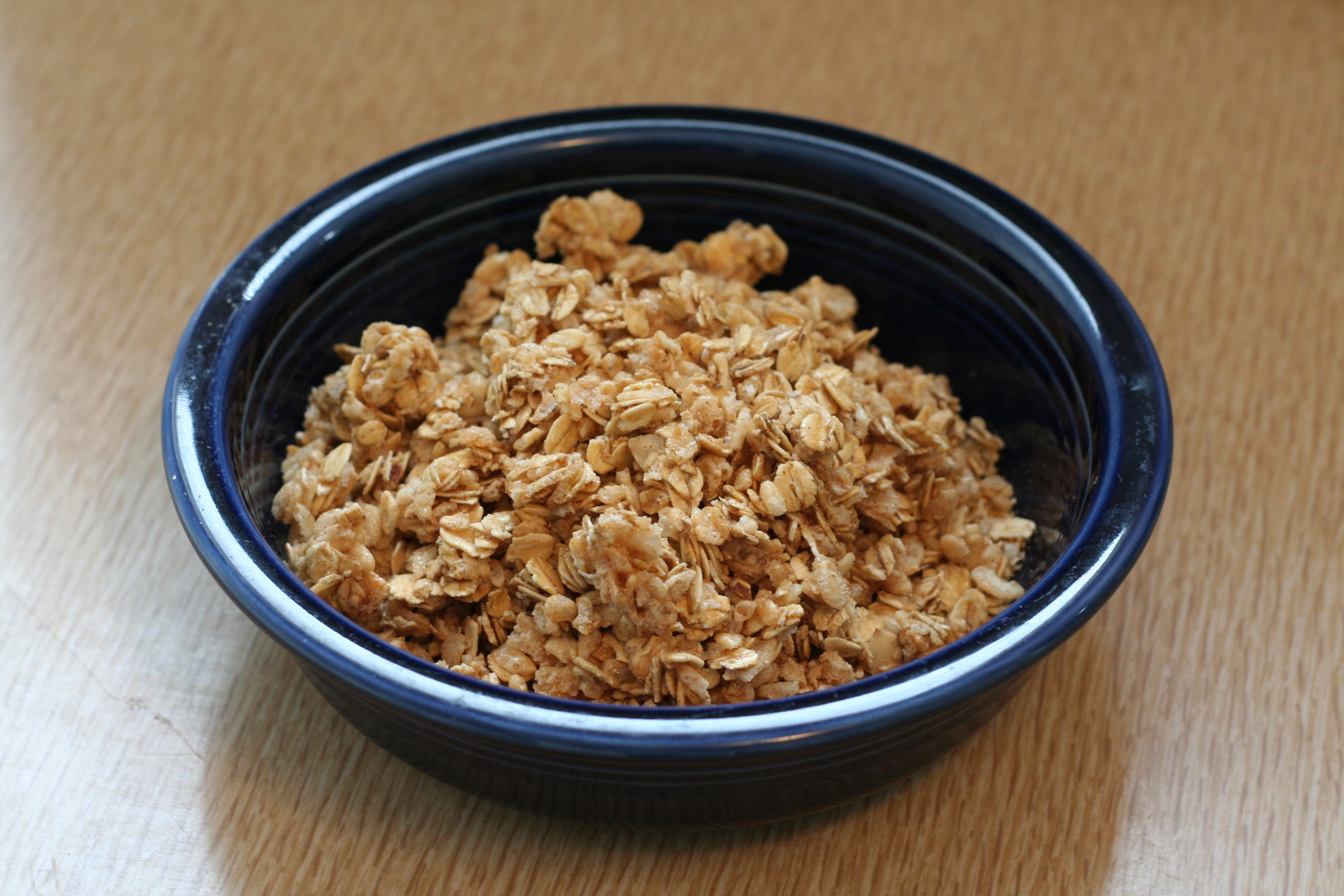 Photographed by and copyright of (c) David Corby (User:Miskatonic, uploader) 2006